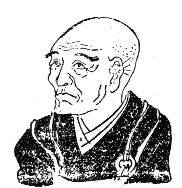 Portrait of Hōjō Sōun, japanese warrior